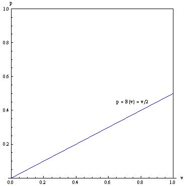 Created in Mathematica 6 solely and entirely by EnumaElish (the author/artist/designer of the image) to be used in Wikipedia article(s).